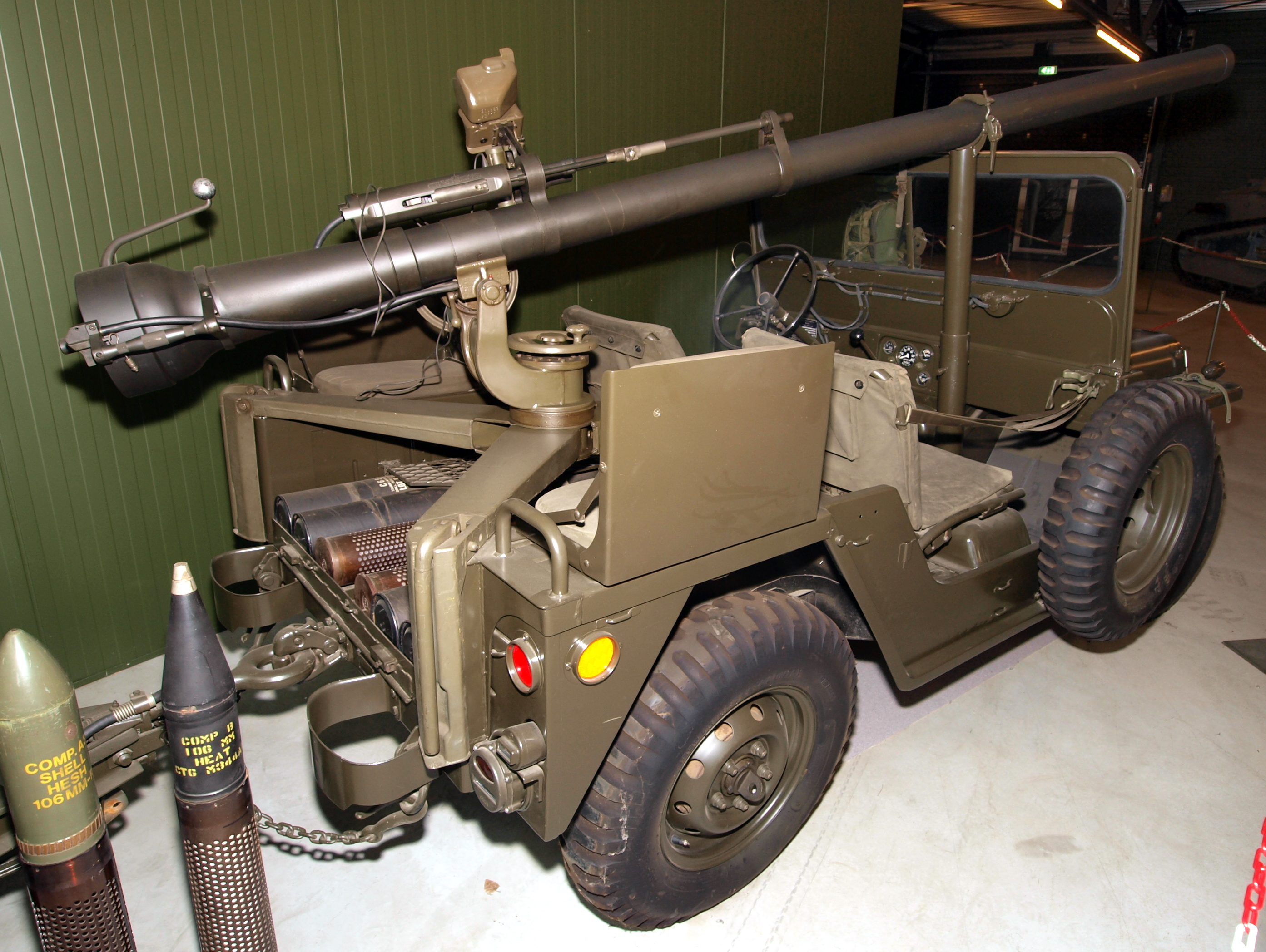 Photographed at the Marshallmuseum - Liberty Park - Oorlogsmuseum Overloon, The Netherlands.